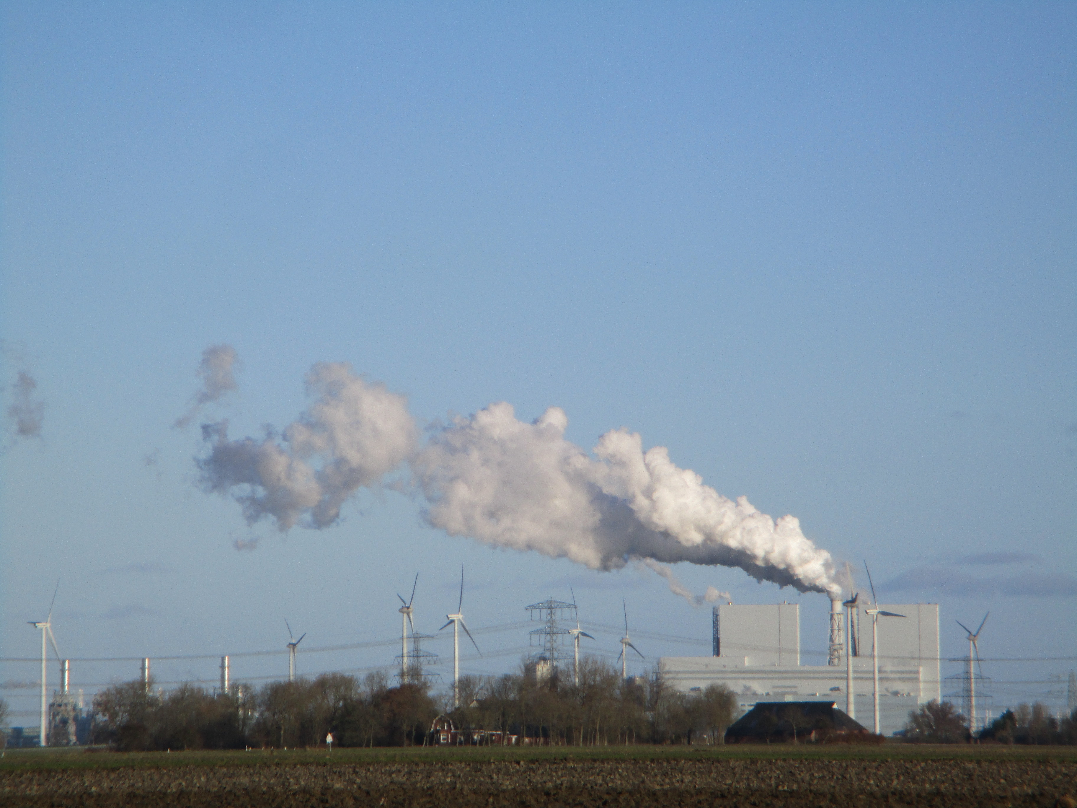 The happily smoking coal-fired power plant of RWE in Eemshaven, the Netherlands. Started in 2015.